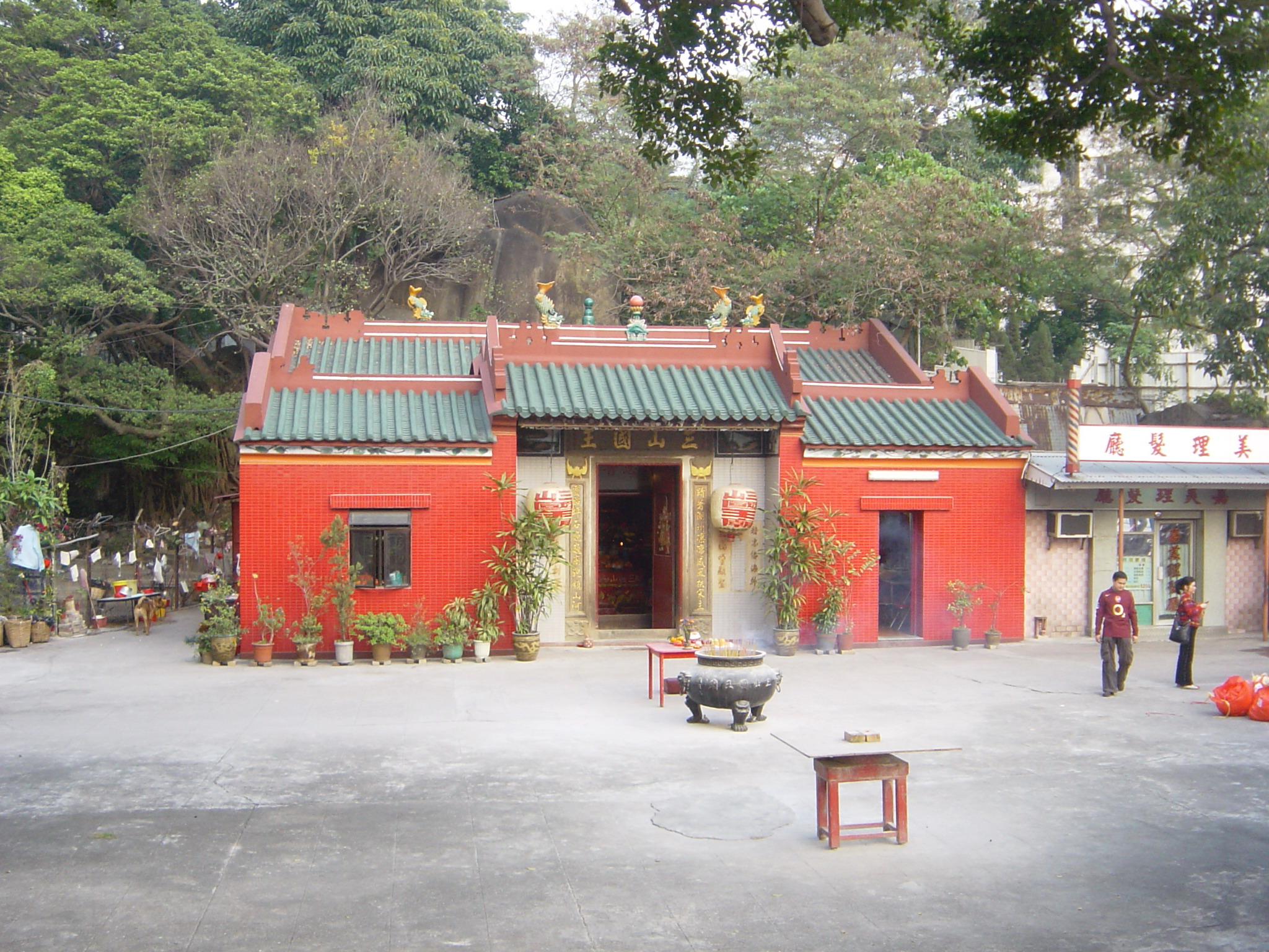 牛池灣村三山國王廟。Joss house in Hong Kong.